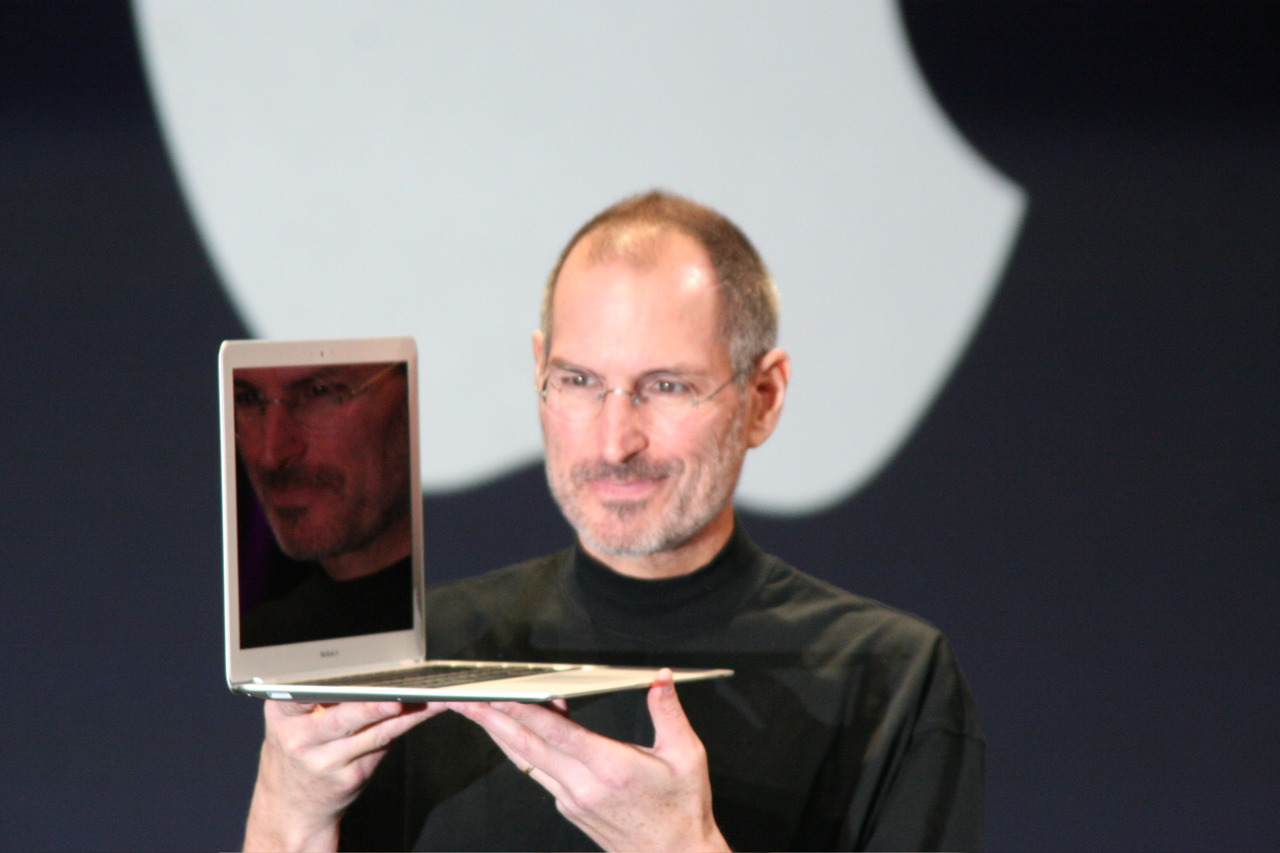 Steve Jobs with his MacBook Air at Macworld 2008.